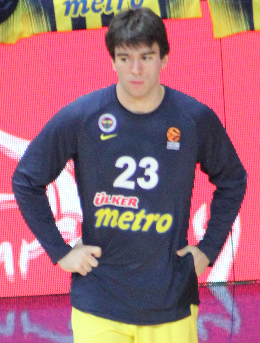 Berk Uğurlu 23 Fenerbahçe men's basketball Euroleague 20161201